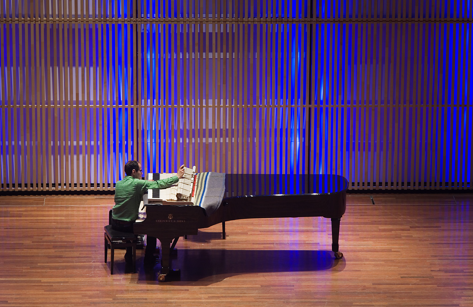 Regulating a grand piano in the Muziekgebouw Concert Hall, Amsterdam, The Netherlands. The grand piano is manufactured by Steinway & Sons.